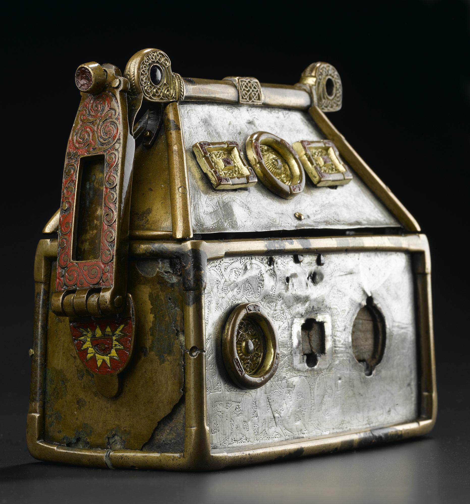 This file was uploaded as part of a partnership between Wikimedia UK and the National Museum of Scotland. This tag does not indicate the copyright status of the attached work. A normal copyright tag is still required. See Commons:Licensing. This work is free and may be used by anyone for any purpose. If you wish to use this content, you do not need to request permission as long as you follow any licensing requirements mentioned on this page.